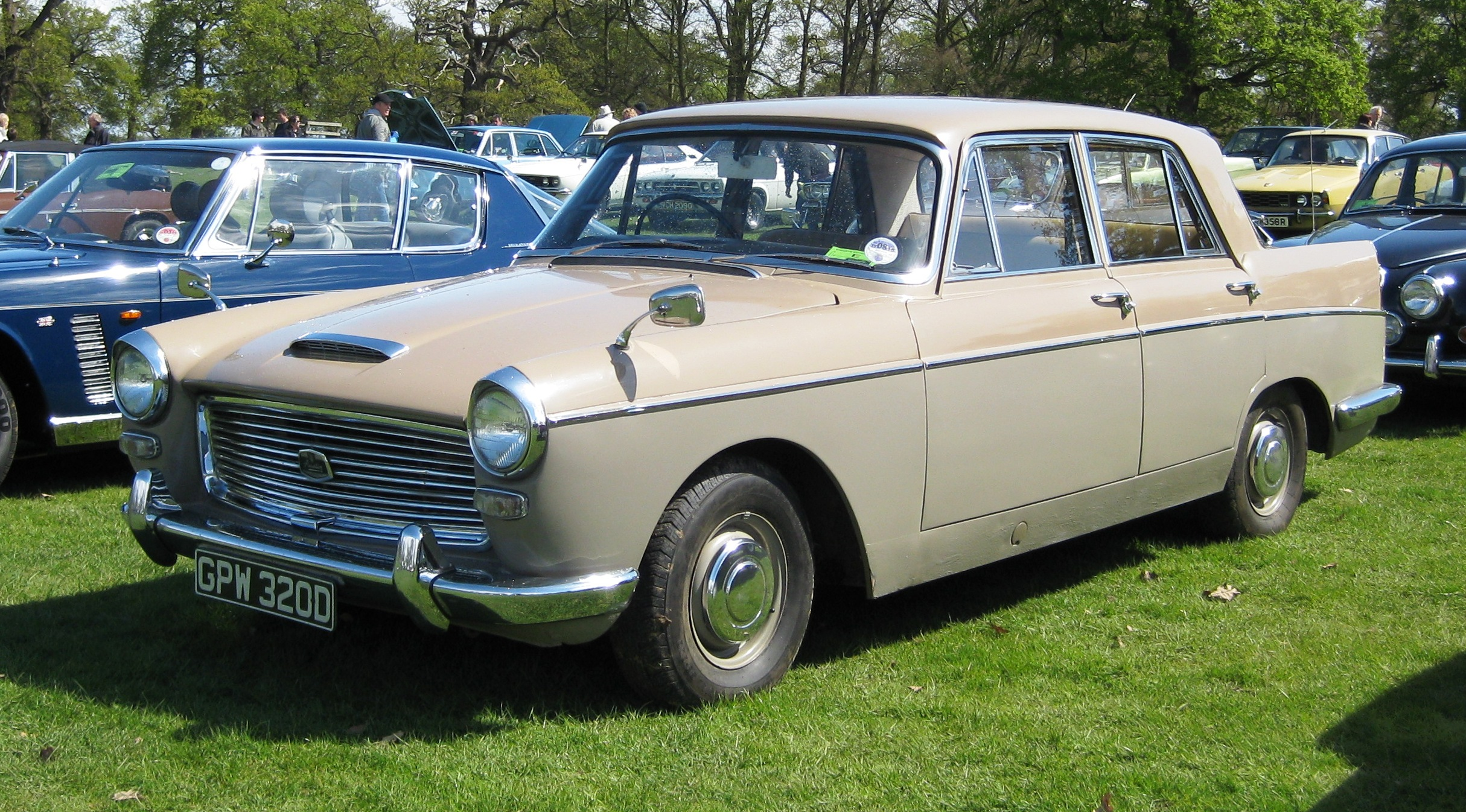 Austin Westminster A110 at Classic Car Show in Bedfordshire